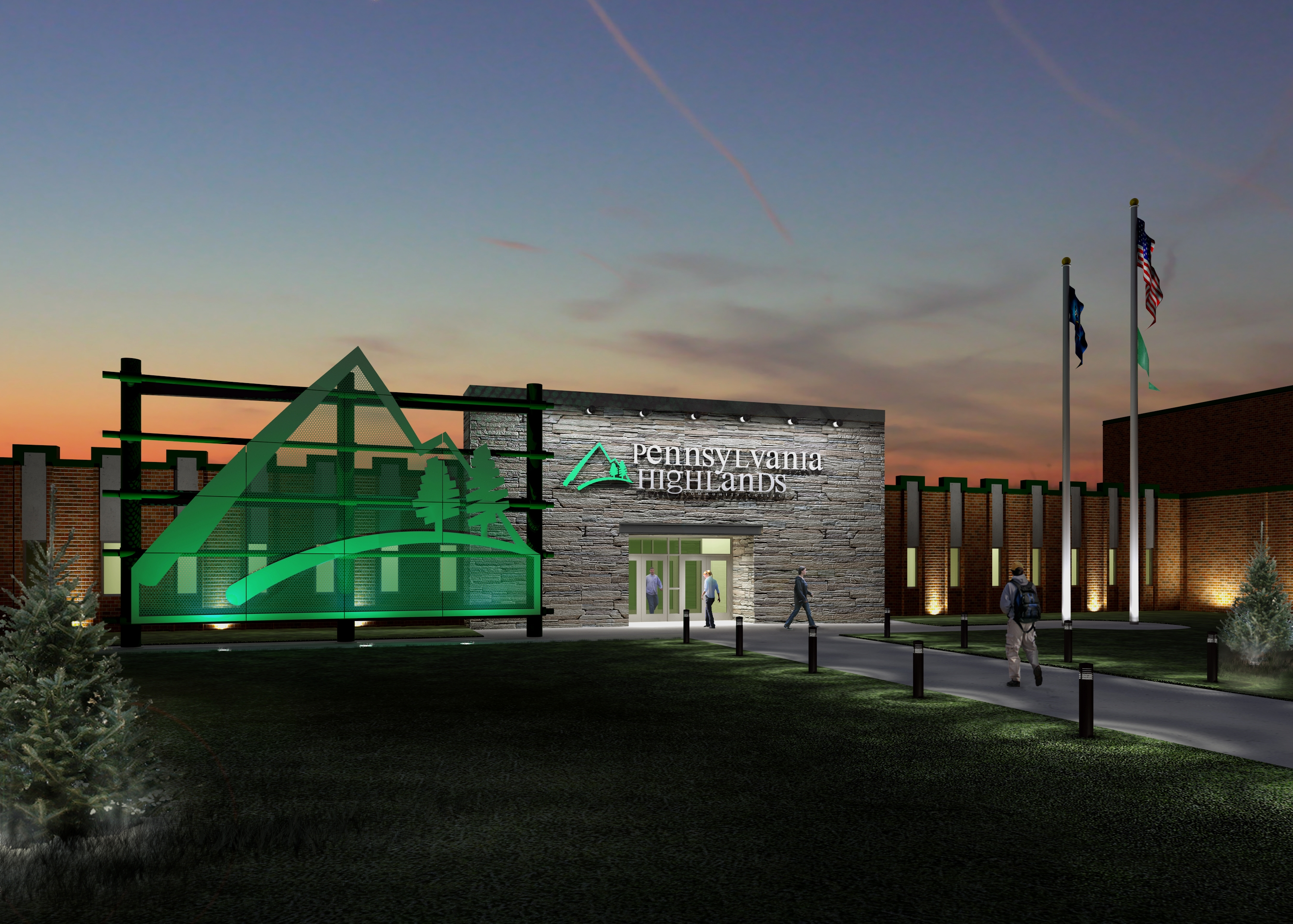 an image of the front of Pennsylvania Highlands community college at night